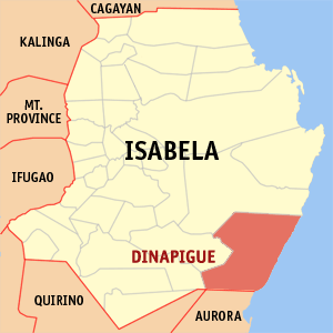 Map of Isabela showing the location of Dinapigue